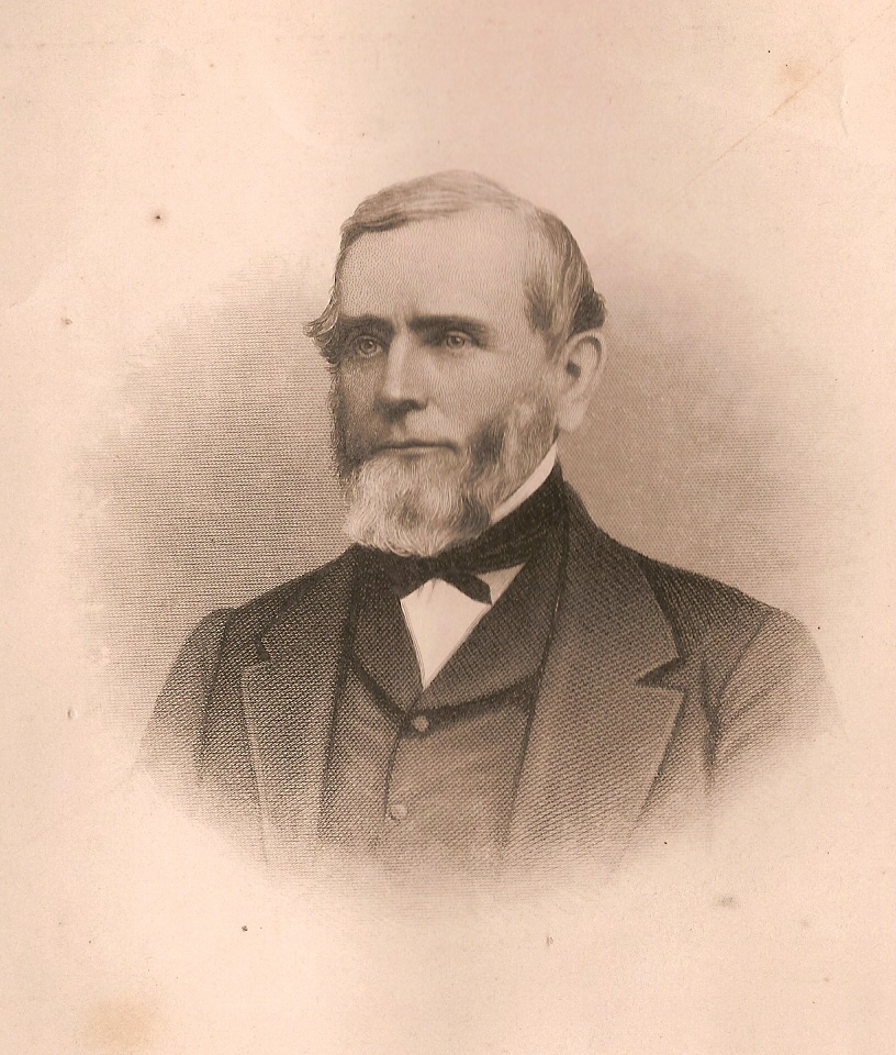 A print of Sextus Hungerford, brother of John Newton Hungerford, congressman, taken from a county history published in 1875.